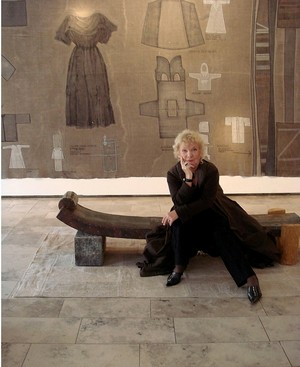 Foto der Autorin Ilse Hehn